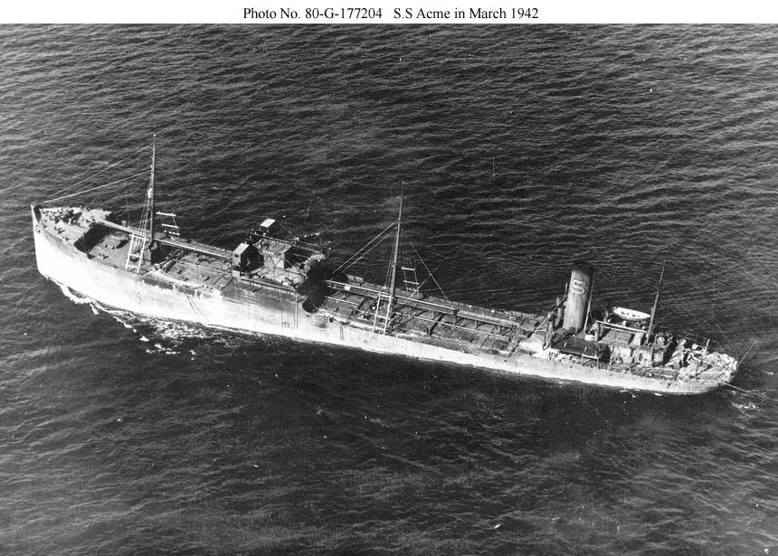 SS Acme under tow after being torpedoed in the stern on 17 March 1942 by U-124 off North Carolina. She was abandoned by her crew but was later towed by Navy and Coast Guard vessels to Lynnhaven Roads, VA., and then to Newport News for repairs. US National Archives photo #80-G-177204, a US Navy Bureau of Ships photo now in the collections of the US National Archives